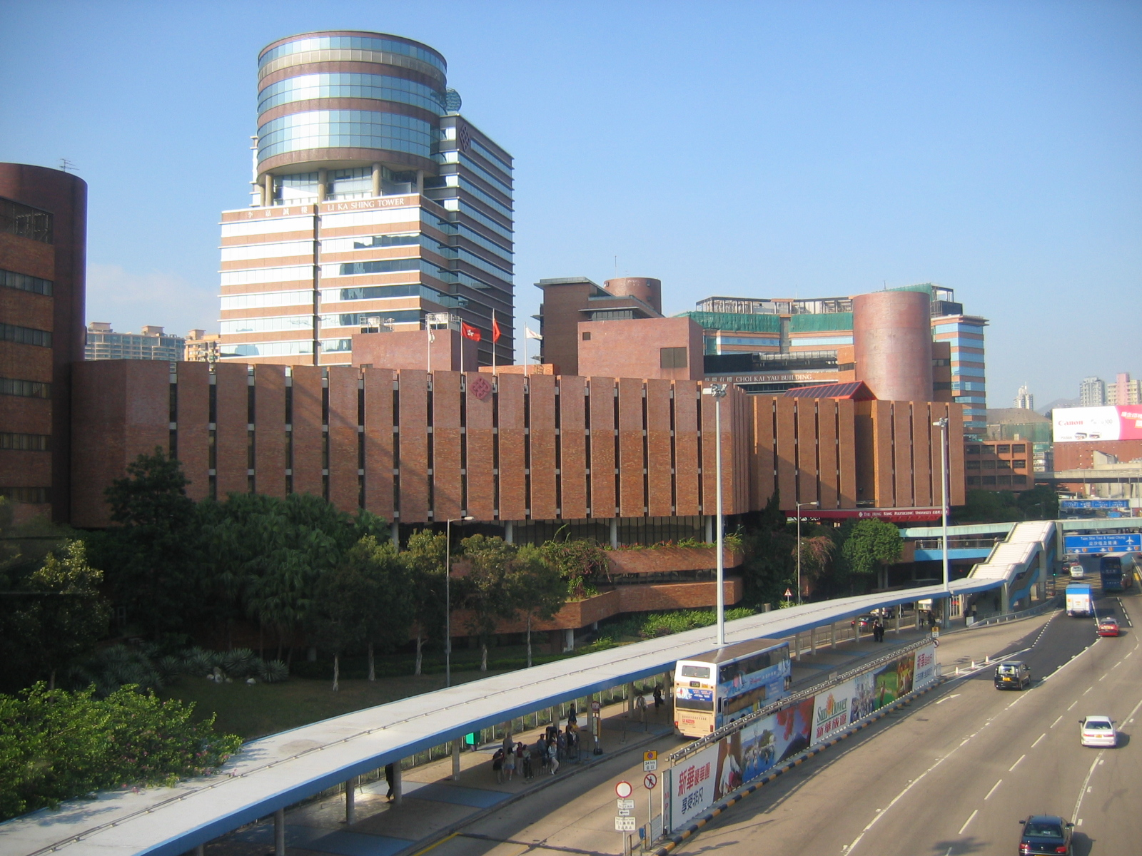 Hong Kong Polytechnic University Local at Hung Hom, Kowloon.